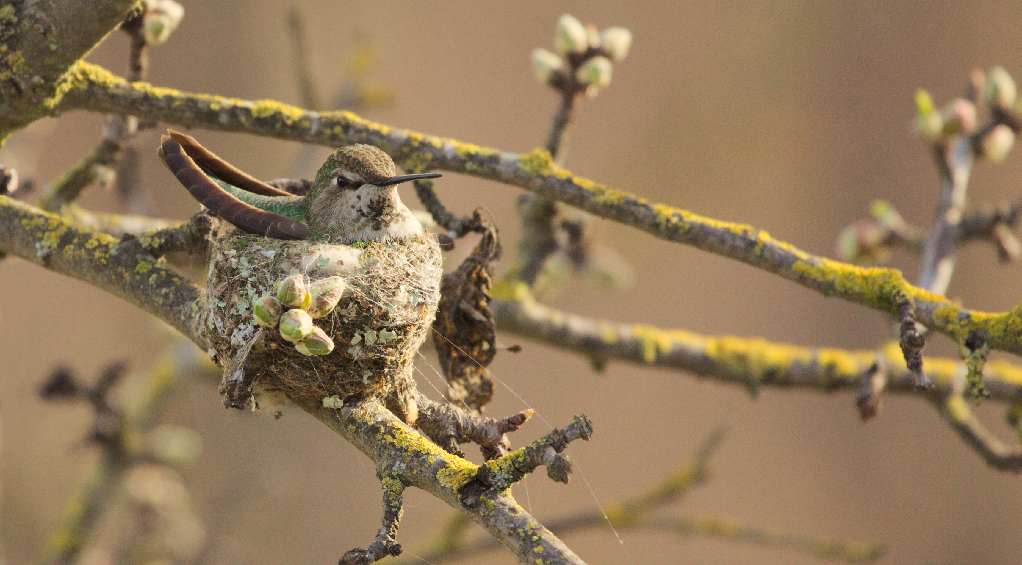 Female Anna's Hummingbird (Calypte anna) incubates eggs in a nest.